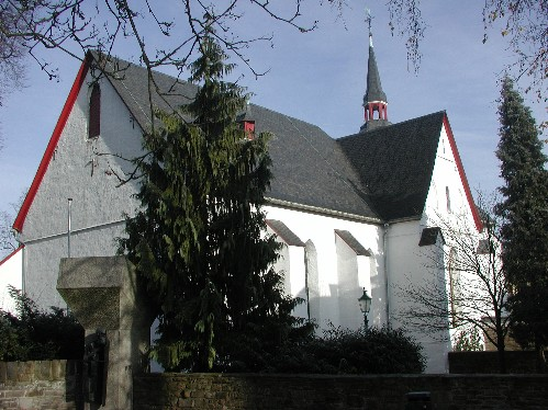 Pilgrimage church Saint Mariä Annunciation - Marienheide - Wallfahrtskirche St. Mariä Heimsuchung - Marienheide Author Hans Kadereit Time of creation 2004 Licence GNU FDL and CC-by-SA Camera Olympus C3040